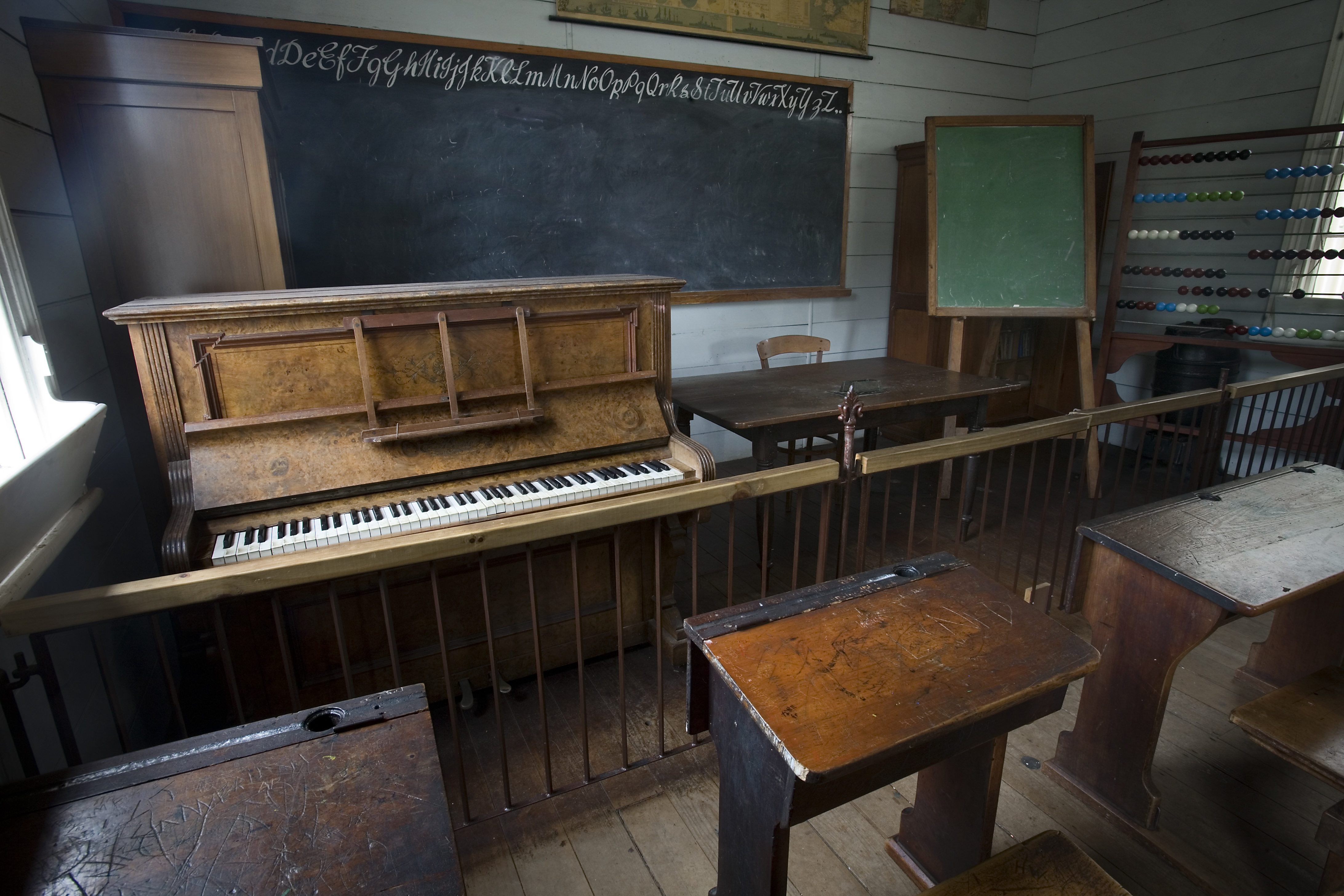 A 19th century classroom with wooden benches, a piano and a blackboard, Auckland, New Zealand